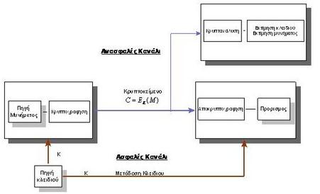 Cryptosystem